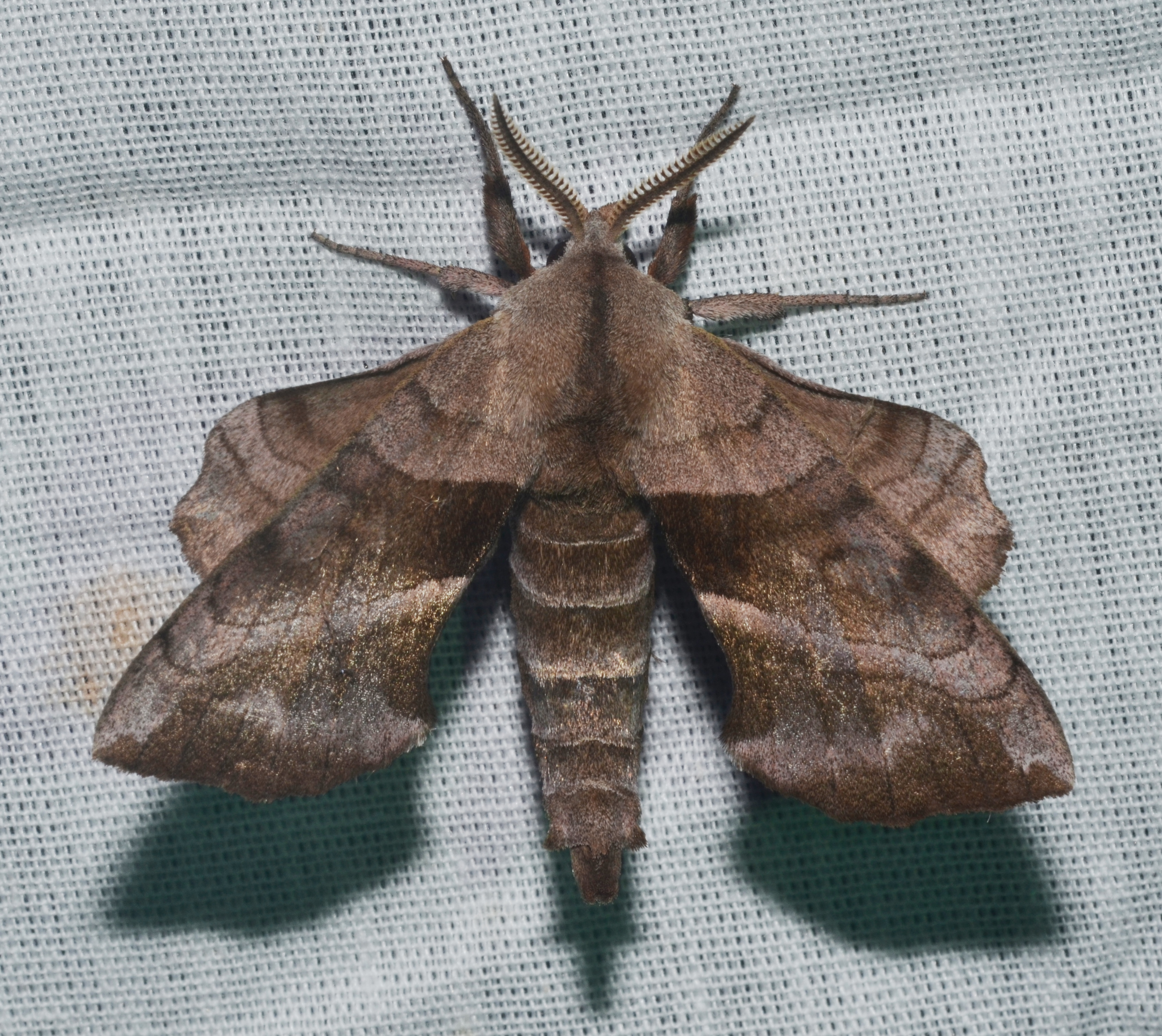 Cuivre River State Park 7/18/15